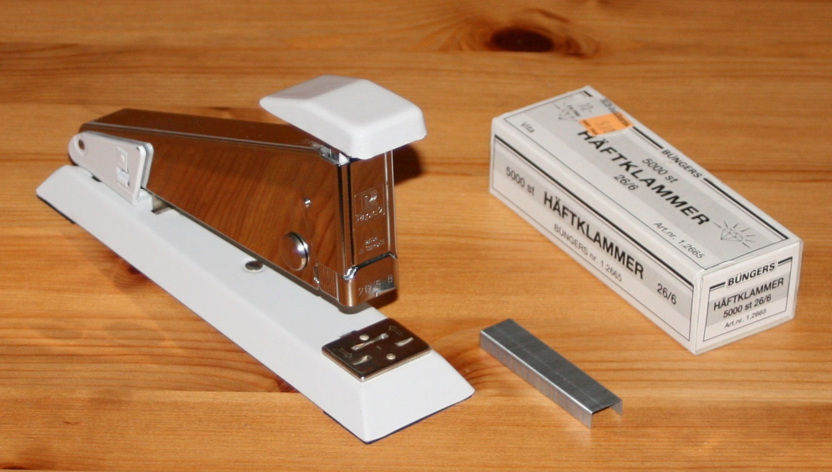 Stapler model "Rapid 2", manufactured by Isaberg Rapid AB, Hestra, Sweden. For staples of size 26/6 thru 26/8.